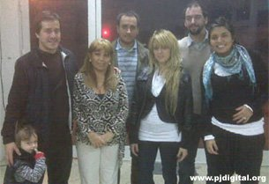 Mariano Recalde, Juan Cabandié & otros (others)